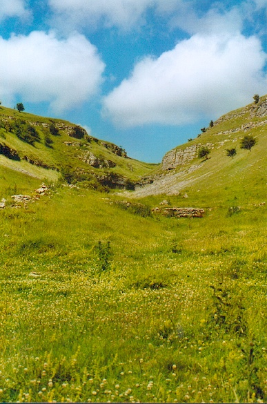 Dry Valley, Lathkill Dale Looking N into SK1766 from SK1765. A small dry valley leads North from Lathkill Dale, Derbyshire.